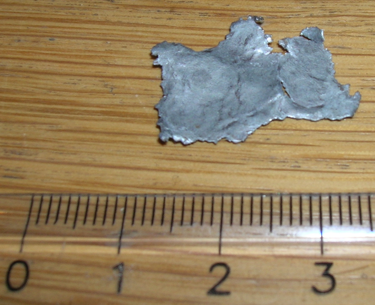 A fragment from a hand grenade. The numberes are in centimeter